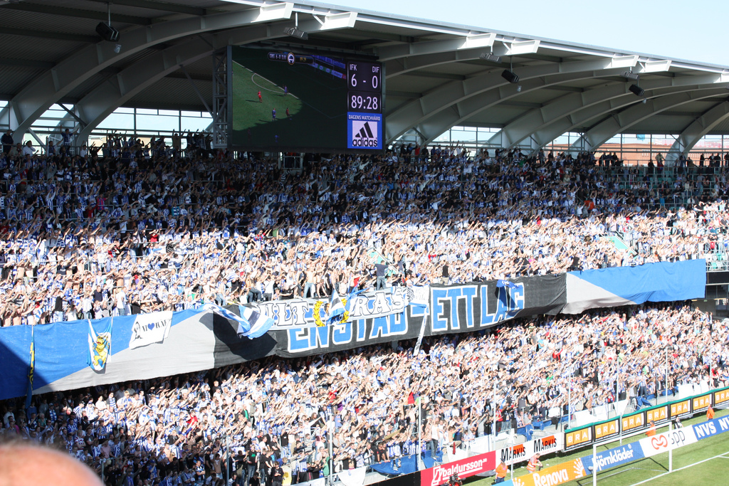 Supporters to IFK Göteborg prepares for an unison vocal cheer honoring their team in it's first match on the new stadium Gamla Ullevi against the rivalising club Djurgårdens IF in Fotbollsallsvenskan, a match which IFK Göteborg won with 6-0.